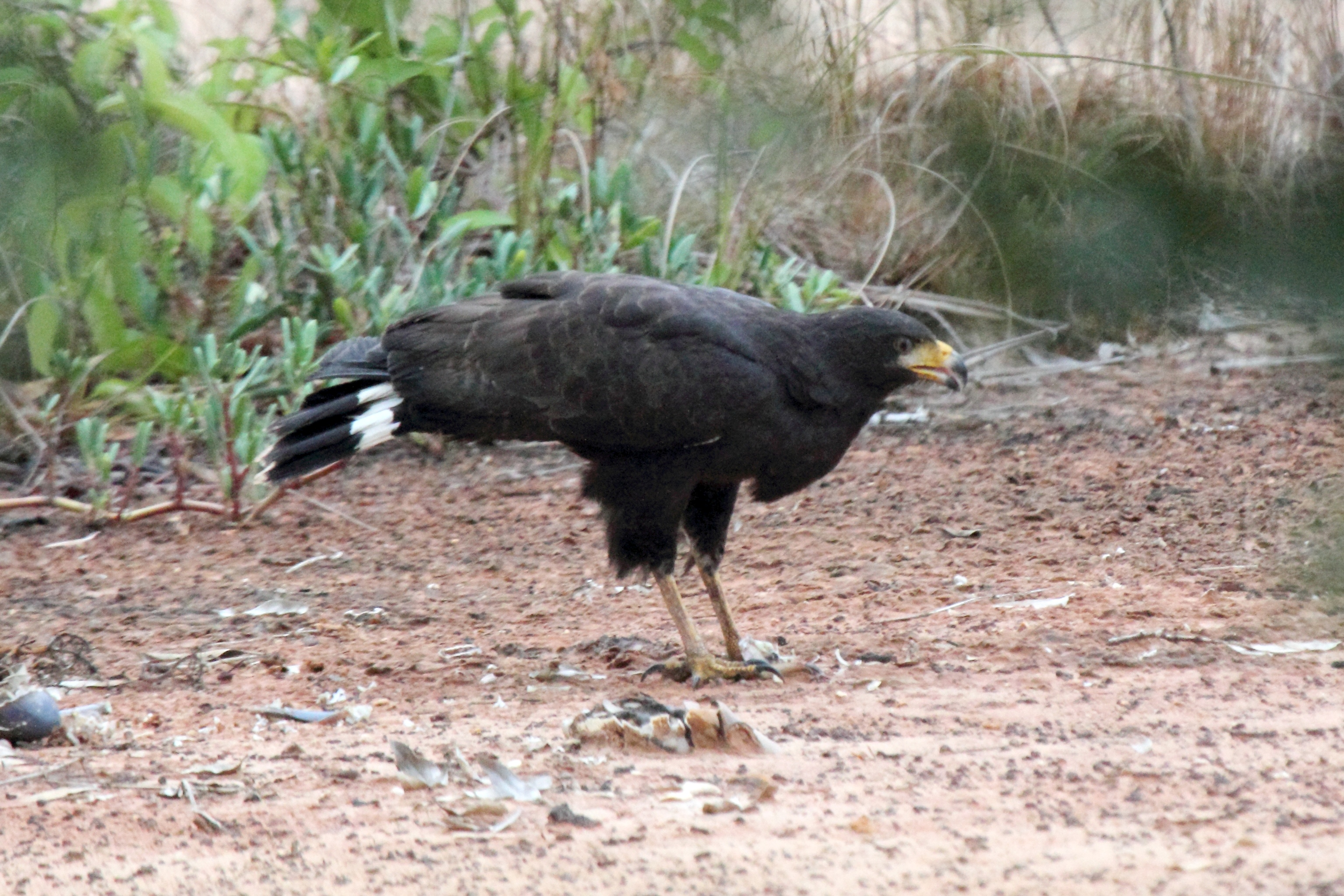 A Common Black Hawk in Belize.